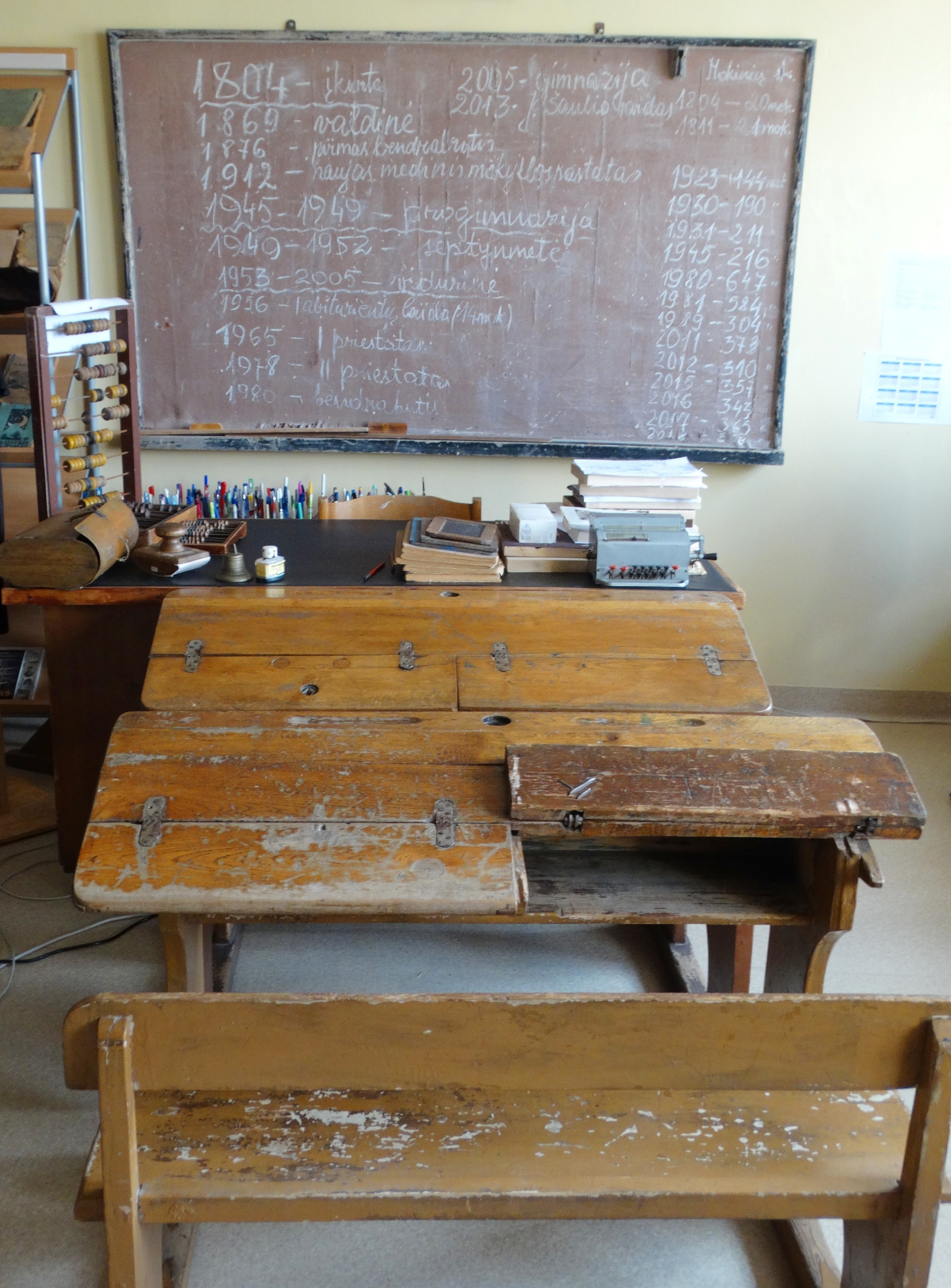 Gymnasium, museum, Veiviržėnai, Klaipėda District, Lithuania